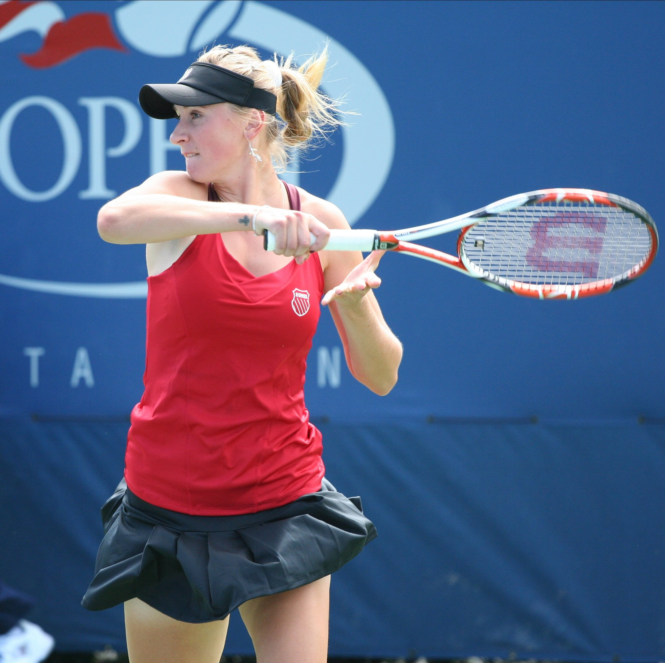 U.S. Open on Friday, Sept. 4, 2009